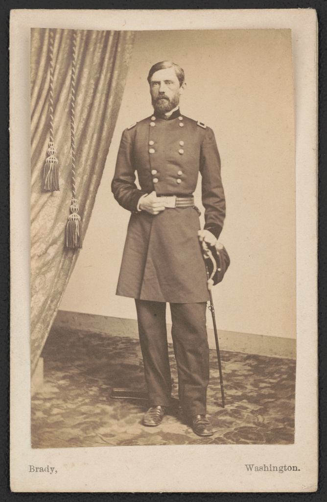 Major General John Fulton Reynolds of 14th Regular Army Infantry Regiment, 5th Regular Army Infantry Regiment, and General Staff U.S. Volunteers Infantry Regiment in uniform / Brady, Washington.